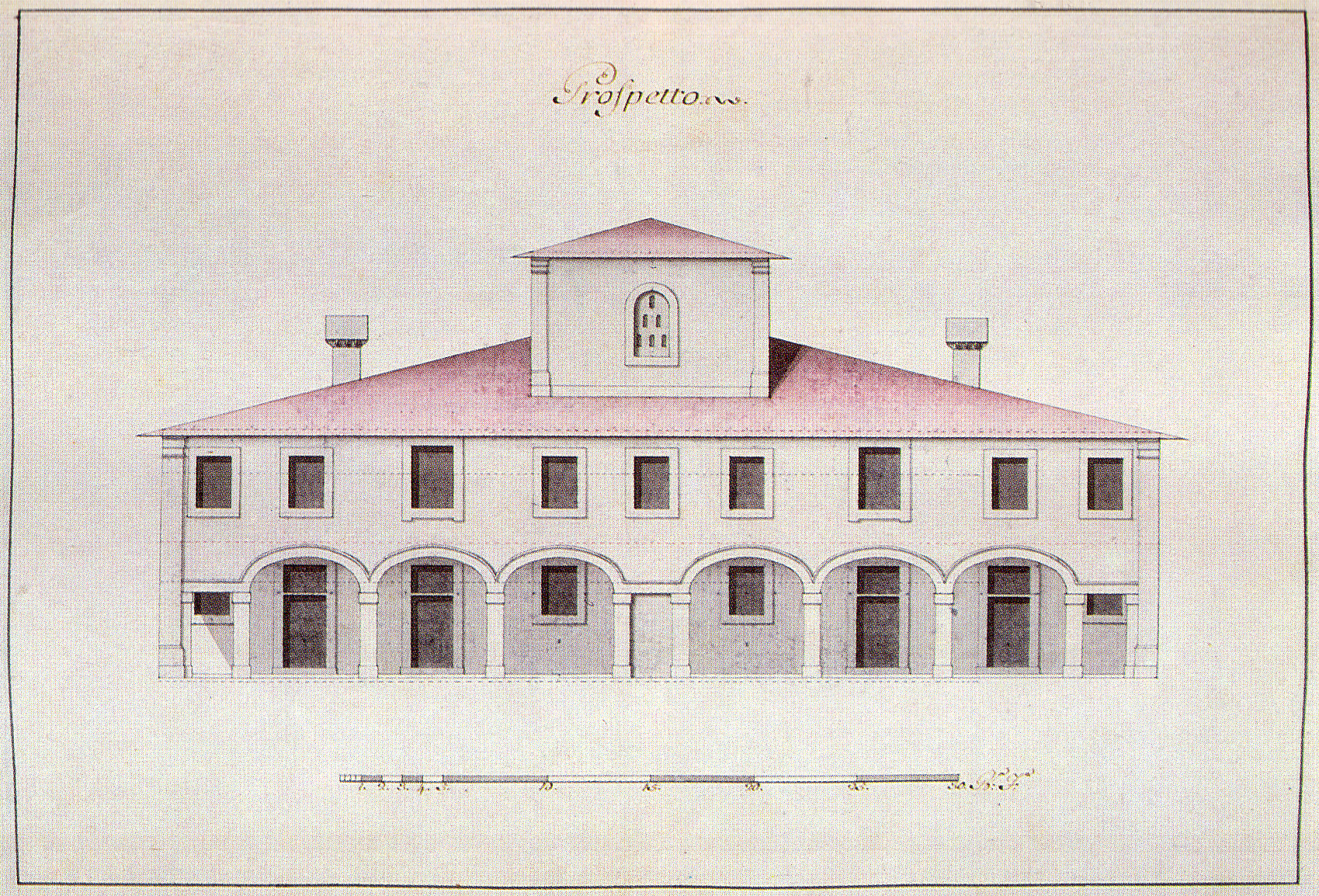 Plan of the mansion in Valdilago Farm in Montevarchi owned by the Grand Duke of Tuscany